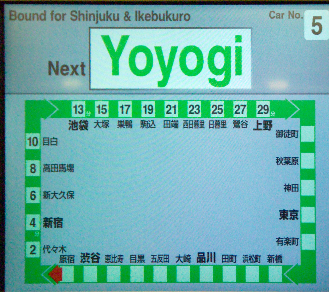 Changeable display on a JR East Yamanote Line train in Tokyo, Japan. Display changes to indicate location (in Japanese and the Latin alphabet), to show route, and to show information such as prohibition of cell-phone use. I took this photo and contribute my rights in the file to the public domain; individuals and organizations retain rights to images in it.